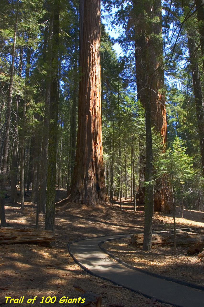 Giant Sequoia trees: Trail of 100 Giants